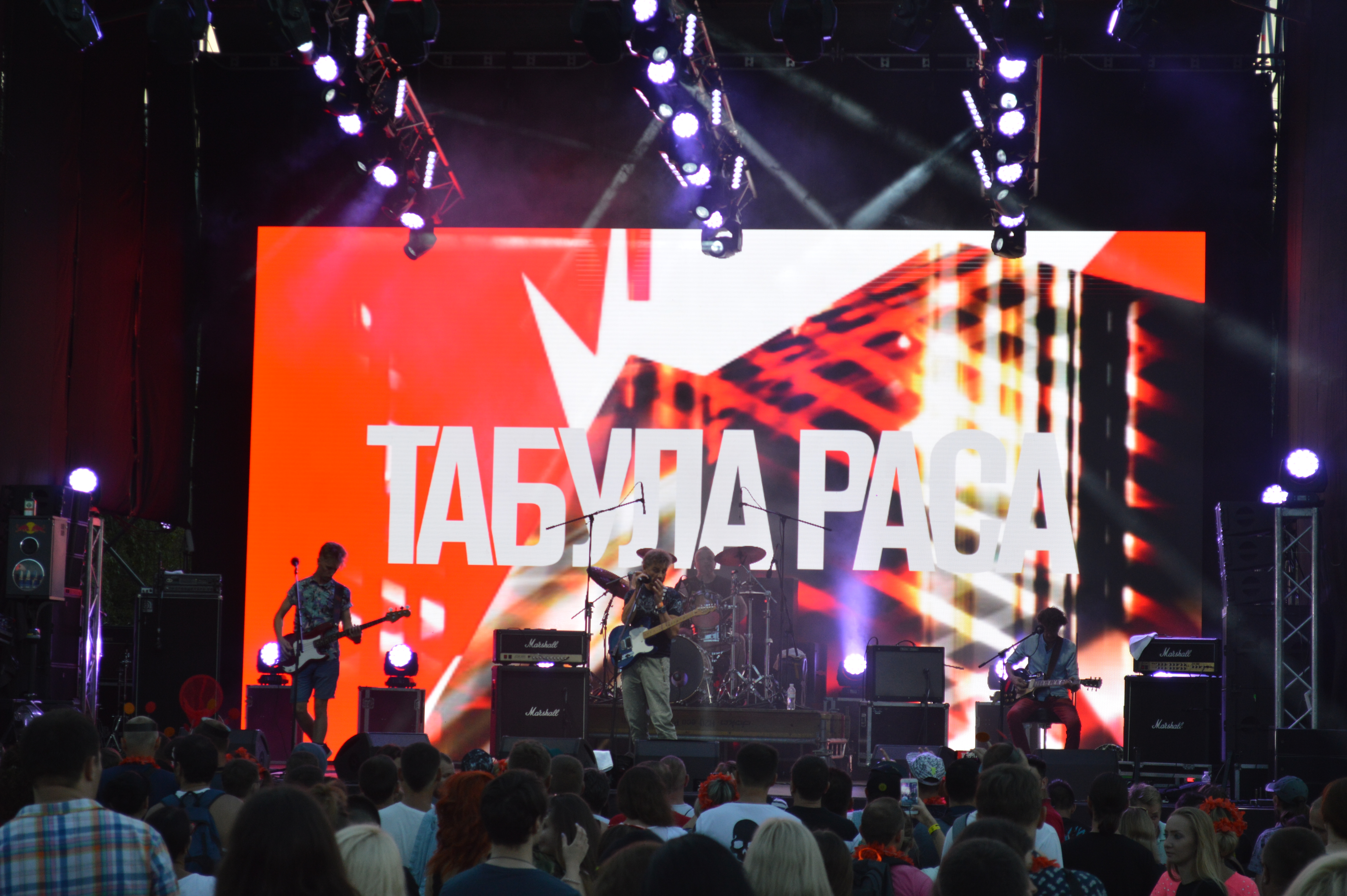 Ukrainian band "Табула Раса" at the 2018 MRPL City Festival.